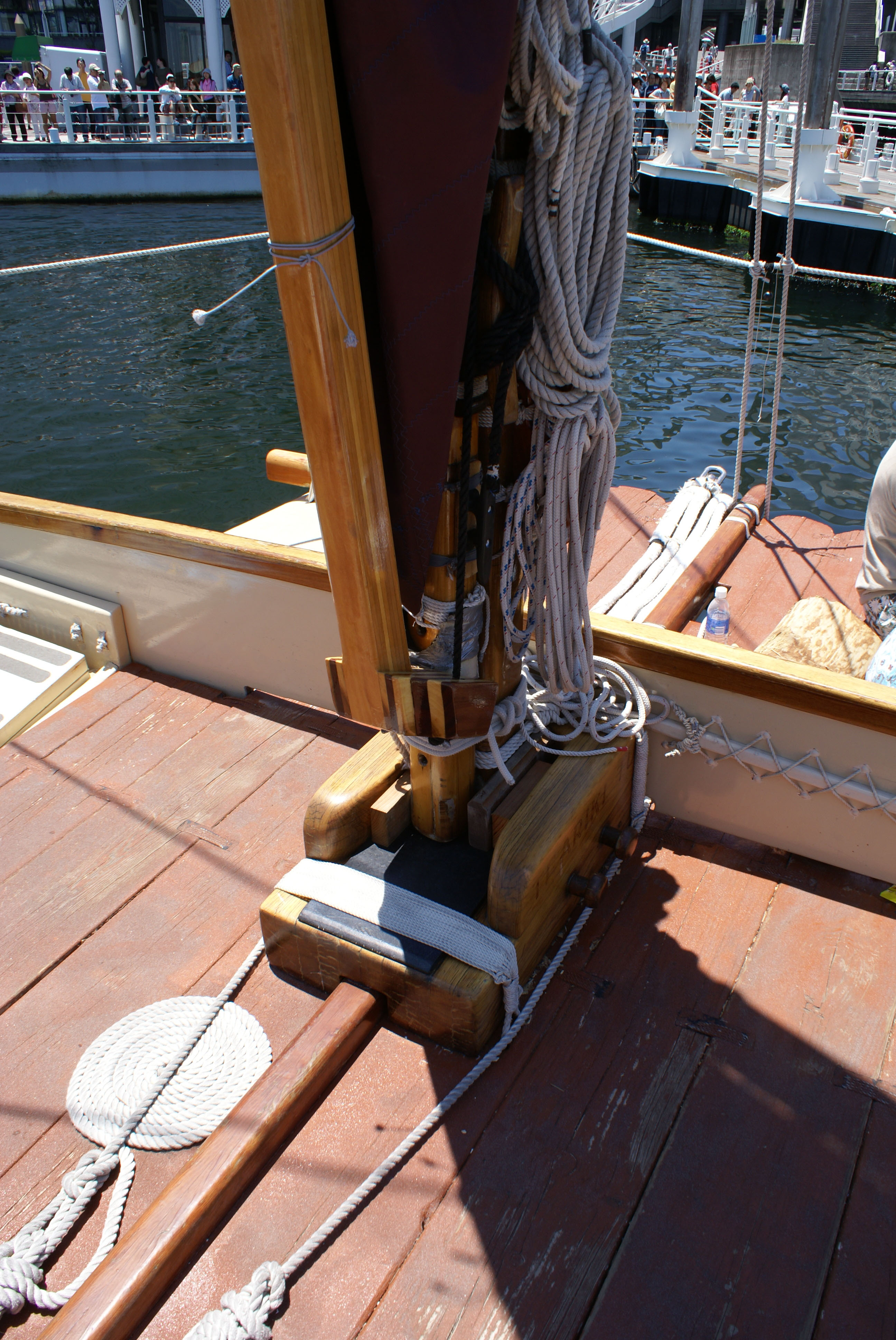 forward mast of Hokule'a